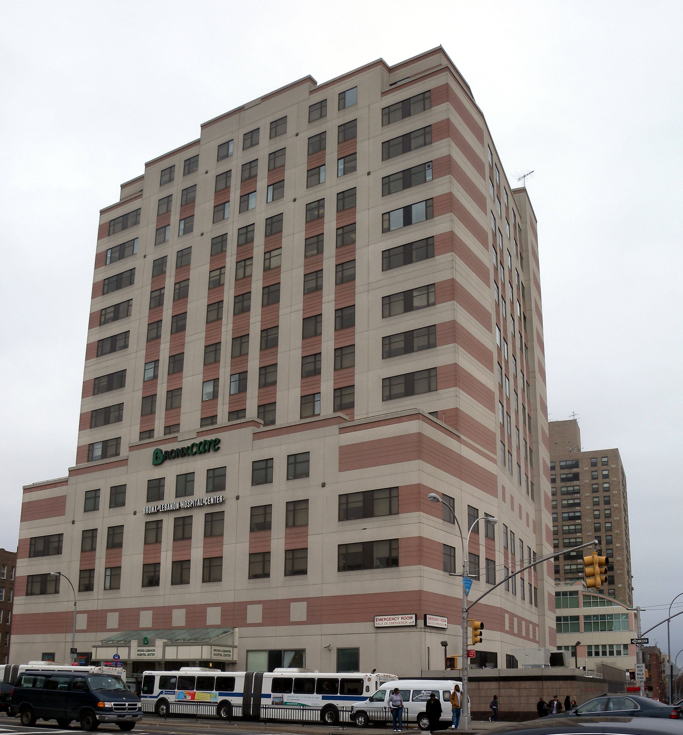 Looking northeast across Grand Concourse at Bronxcare, also called Bronx-Lebanon Medical Center, on a cloudy afternoon.